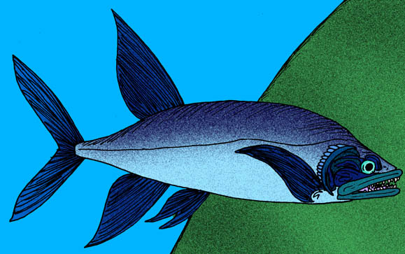 Reconstruction of the primitive ichthyodectid Cooyoo australis, of Cretaceous Queensland. (C) Stanton F. Fink